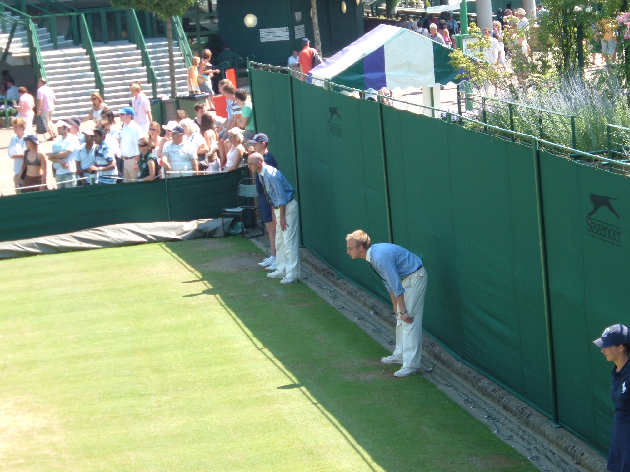 Line judges watch closely at the 2006 Wimbledon Championships